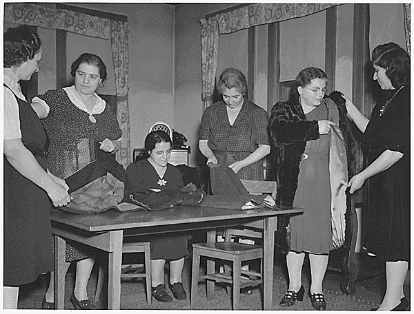 A group of patriotic Italian American women learn to do a thrifty job of relining, turning, patching, and making old garments as good as new - saving materials and strengthening morale. (48223933(224), 00/00/1942, 27-0908a.gif)